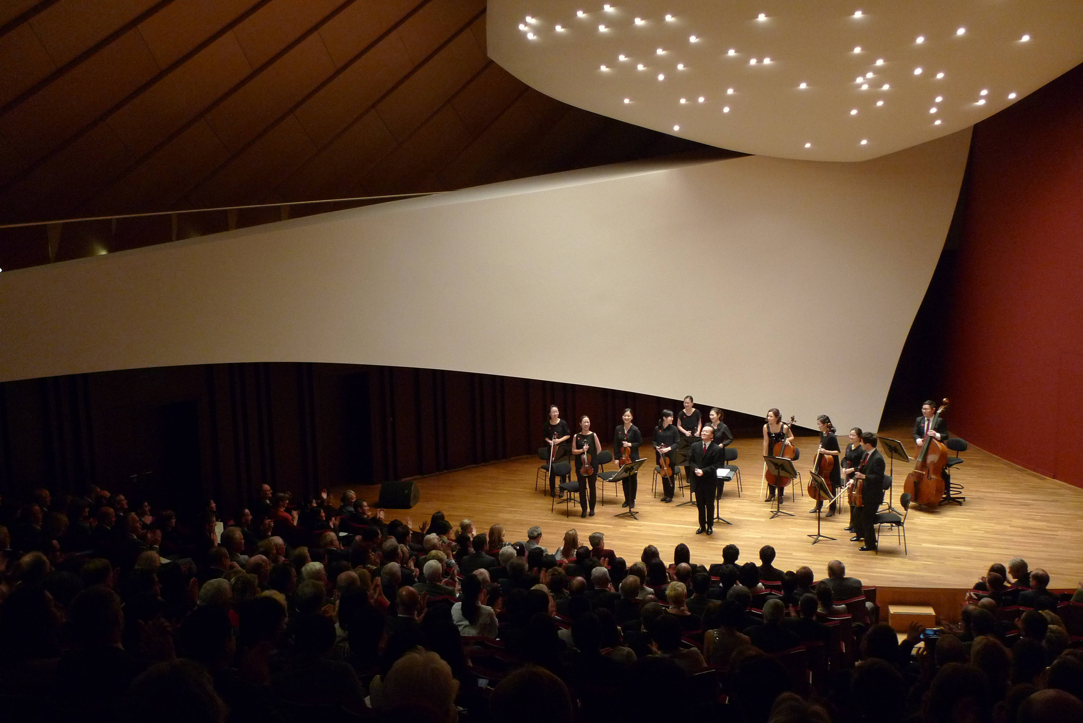 Maestro Gum and Camerata S at Luxemburg Chamber Hall